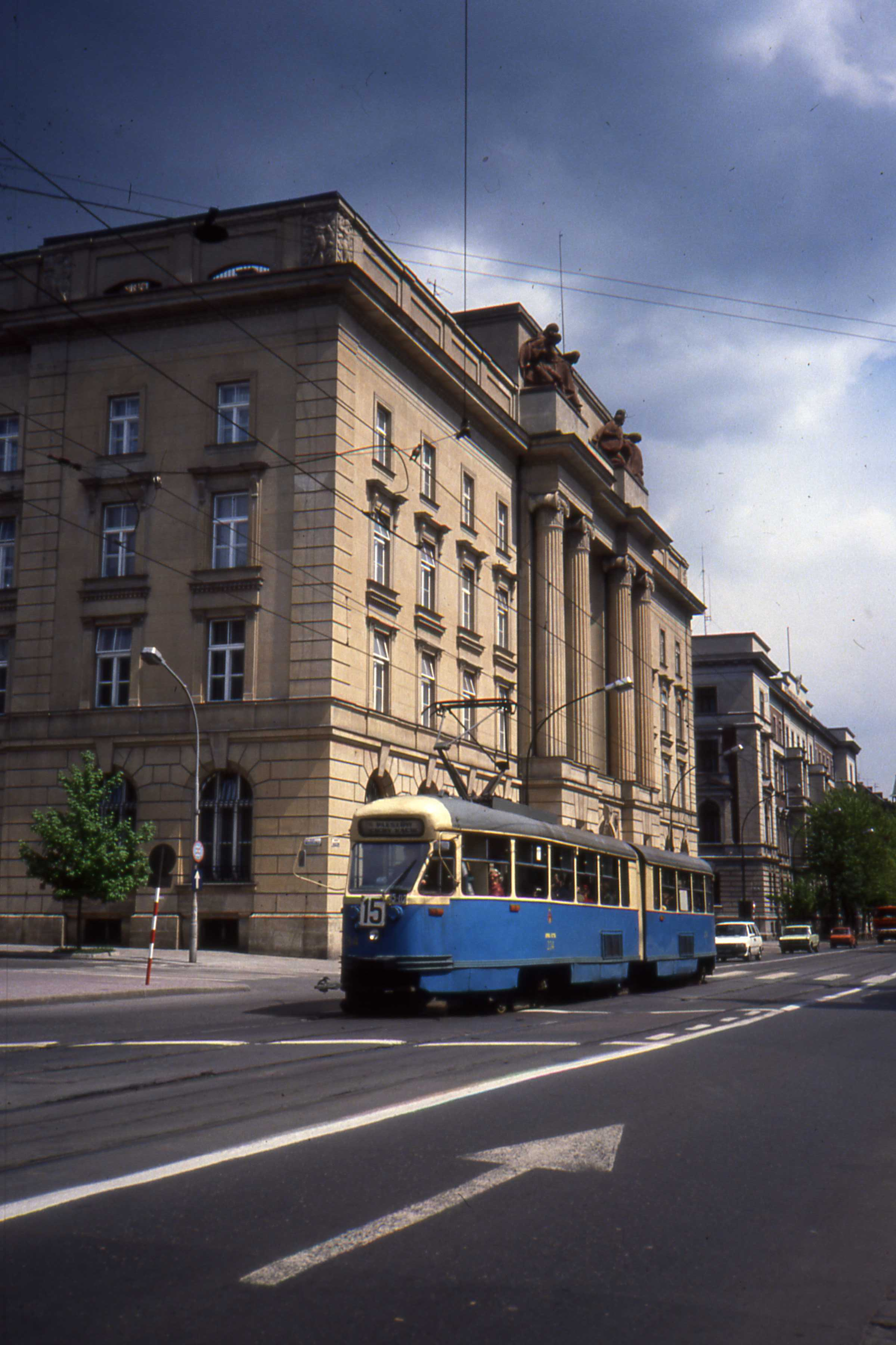 Konstal 102Na articulated tram on Route 15, perhaps nr 234 which was new in 1971 and scrapped in 1997. A list of the Konstal 102Na trams operated in Cracow and Nowa Huta is here